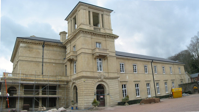 Penoyre House, near Brecon Penoyre house, originally built in 1799 for the Watkins family, during its conversion into luxury apartments, April 2006.